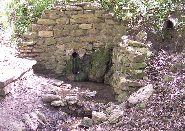 Kell Well. At Kell Well flint arrowheads and other implements of the Neolithic period (4000BC-2351BC) including a stone axehead have been picked up.